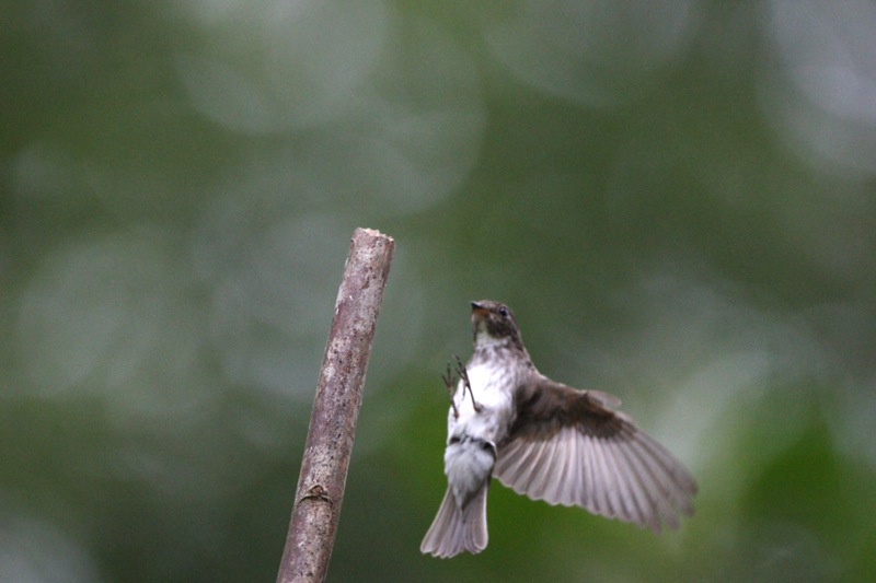 Dark-sided Flycatcher Muscicapa sibirica Panti Forest, Johor, Malaysia 4th. March 2007 Landing sequence 1 of 5 ASA 1600 f 4 1/2500